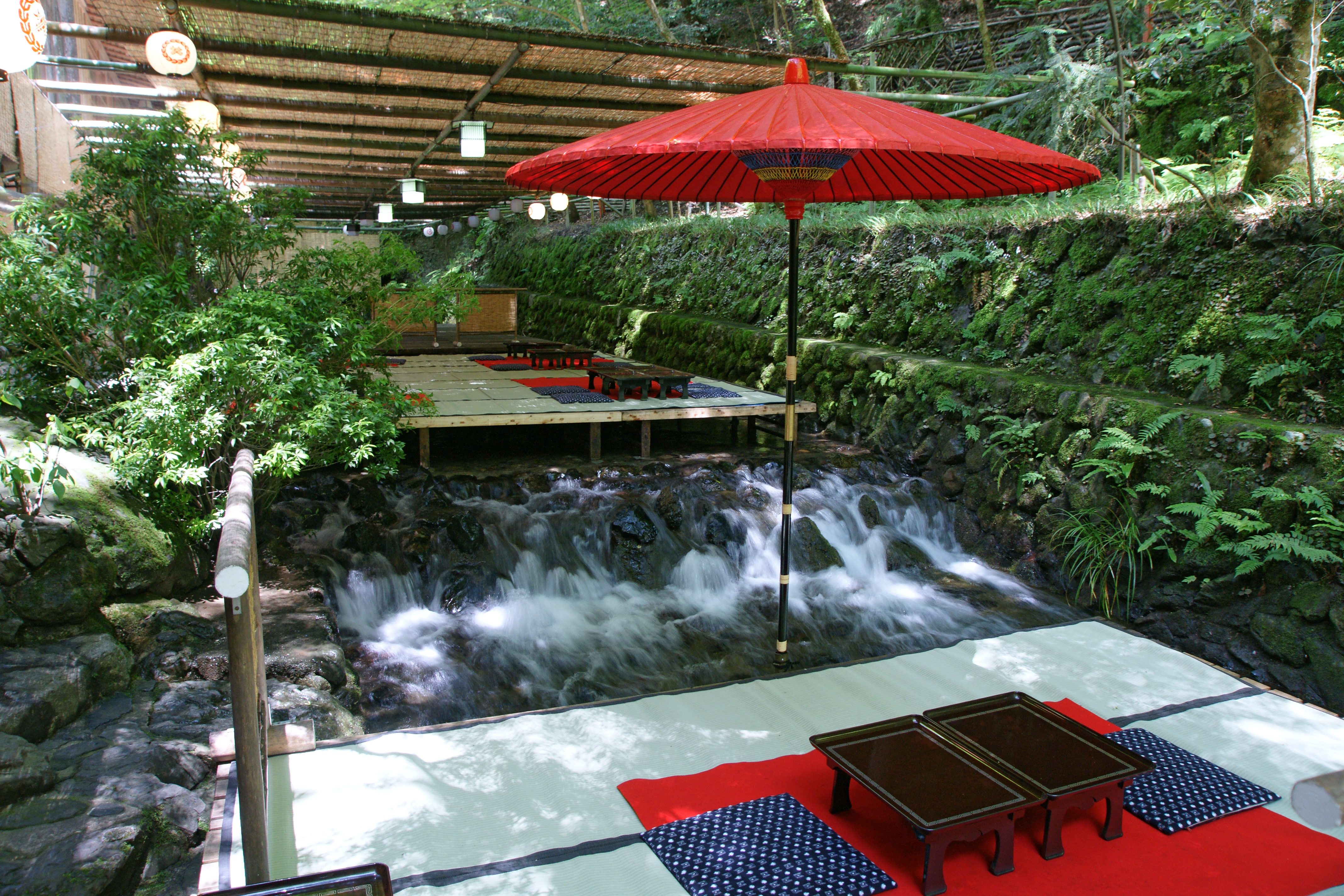 Kawadoko (Noryo yuka) in Kibune, Sakyo, Kyoto, Kyoto prefecture, Japan